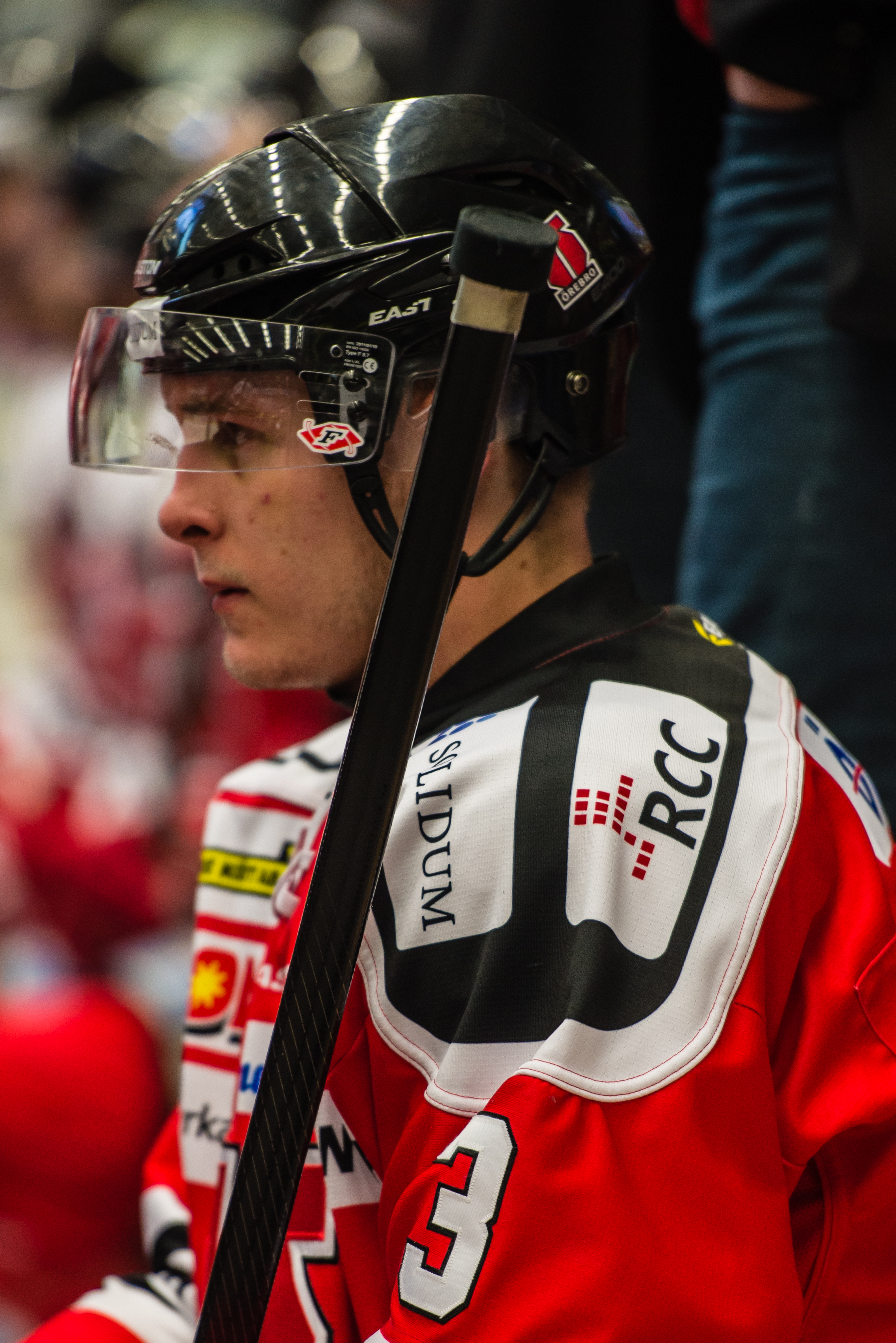 Bobbo Petersson playing for Örebro HK in SHL (Sweden's highest league) against MODO Hockey in Behrn Arena 2013-10-05.